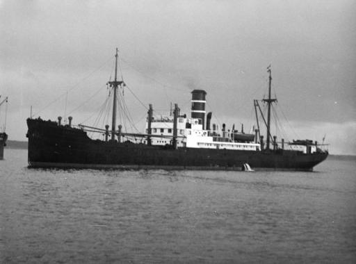 Finnish steamer Orion (1935); handed over to the Soviet Union as war reparations in 1945 and renamed Valday. Broken up in 1969.